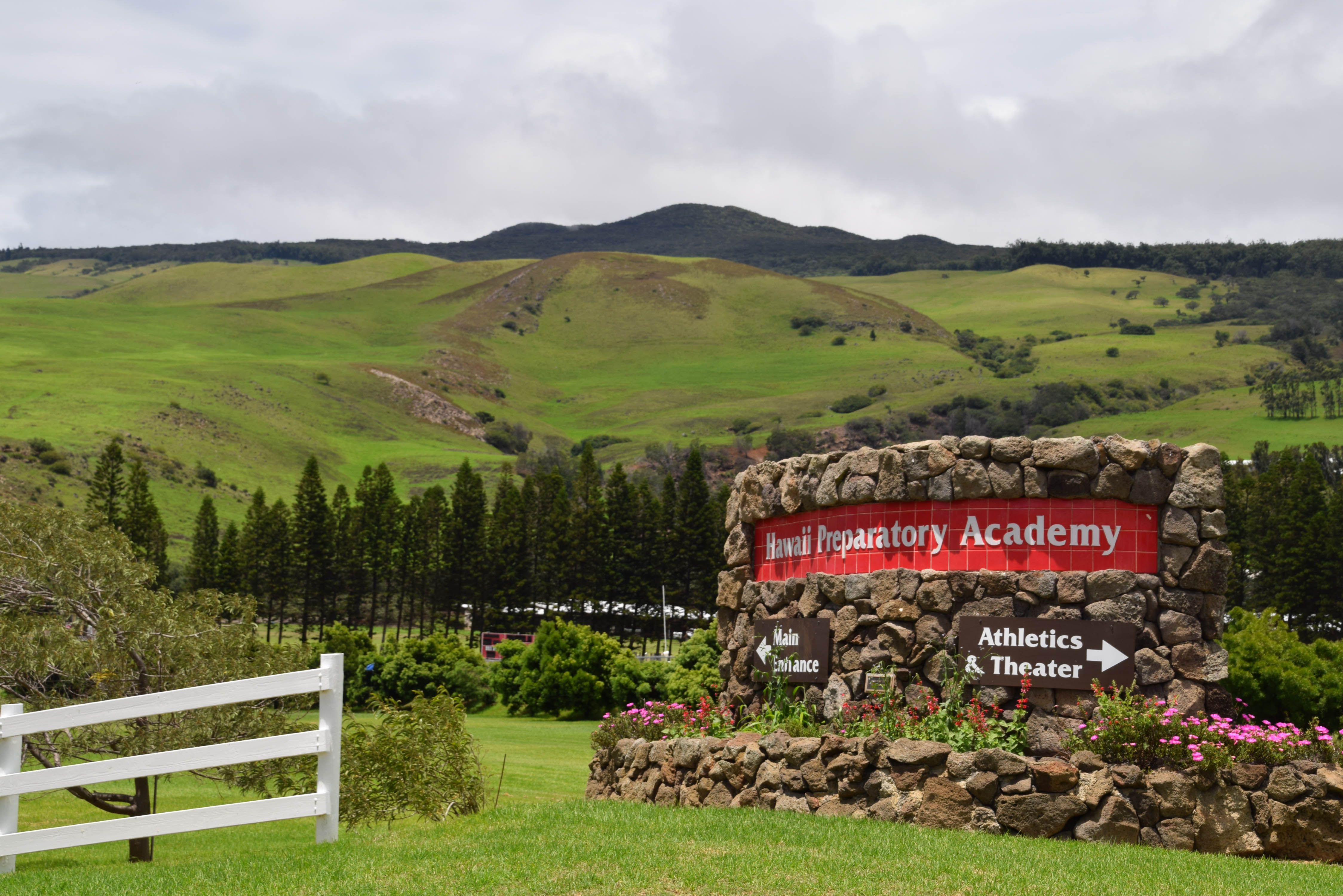 Hawaii Preparatory Academy - Upper Campus, Waimea, Hawaii County, Hawaii